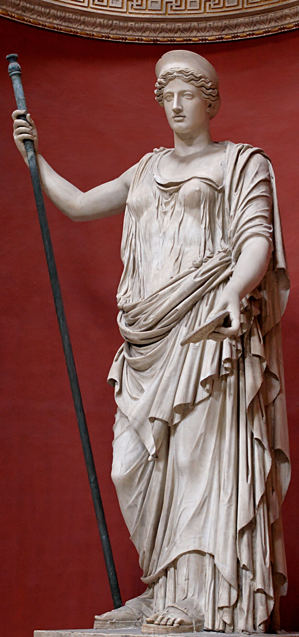 Statue of the goddess Hera. Marble, Roman copy after a Greek original from ca. 420 BC.